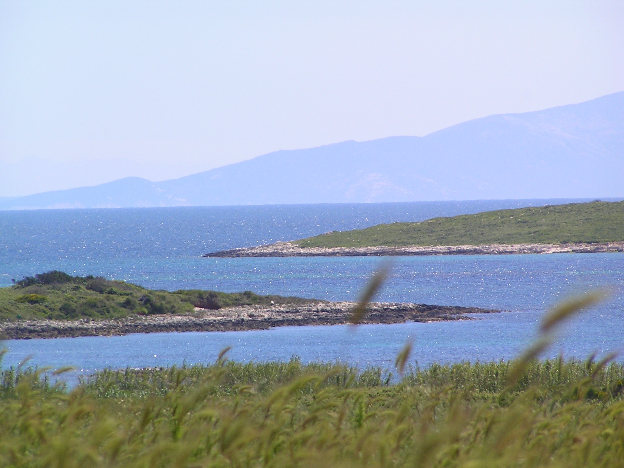 The sea seen from the coast of the southeastern part of Istria. The hill on the horizon is the Island of Cres.